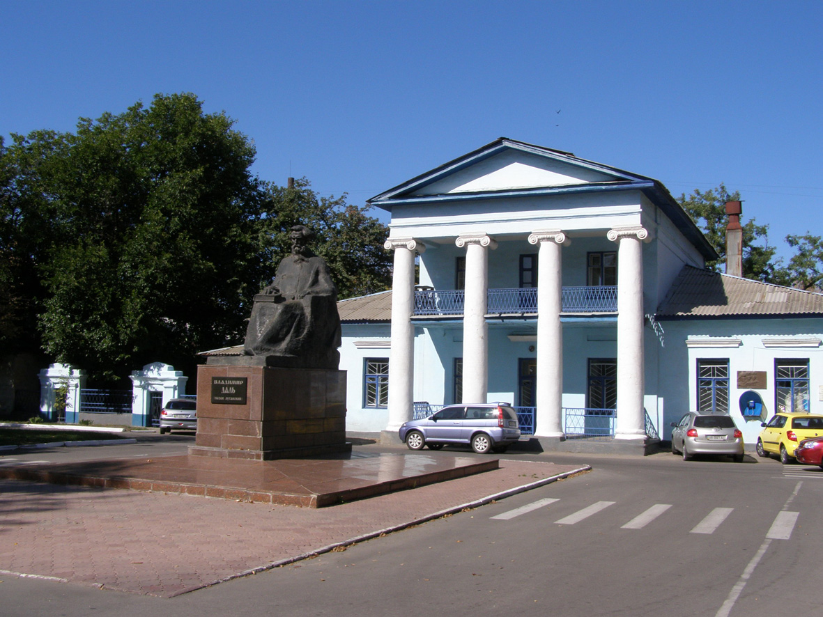 Hydropathic in Luhansk (Ukraine)